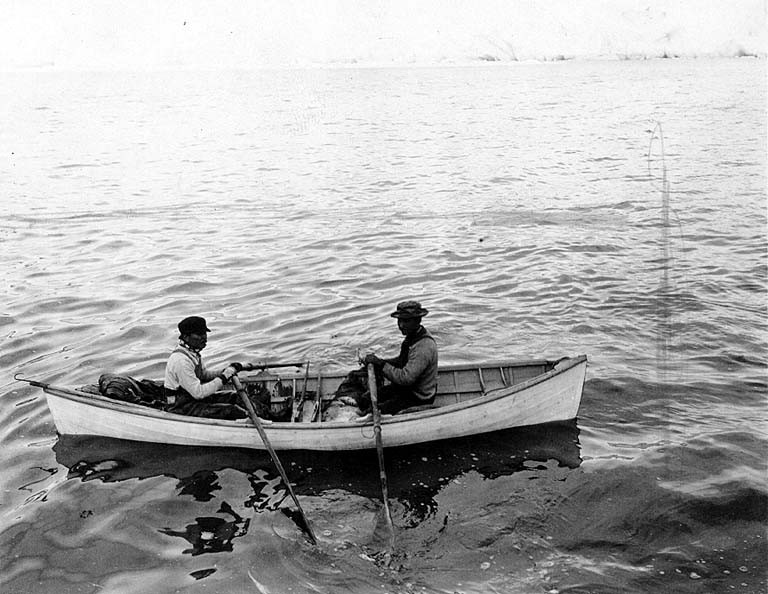 From John Cobb field notebook: Native hair seal hunters, Taku Inlet, Alaska, May 21, 1911 Subjects (LCTGM): Rowboats--Alaska--Taku Inlet Subjects (LCSH): Sealing--Alaska--Taku Inlet; Hunting--Alaska--Taku Inlet; Tlingit Indians--Subsistance activities